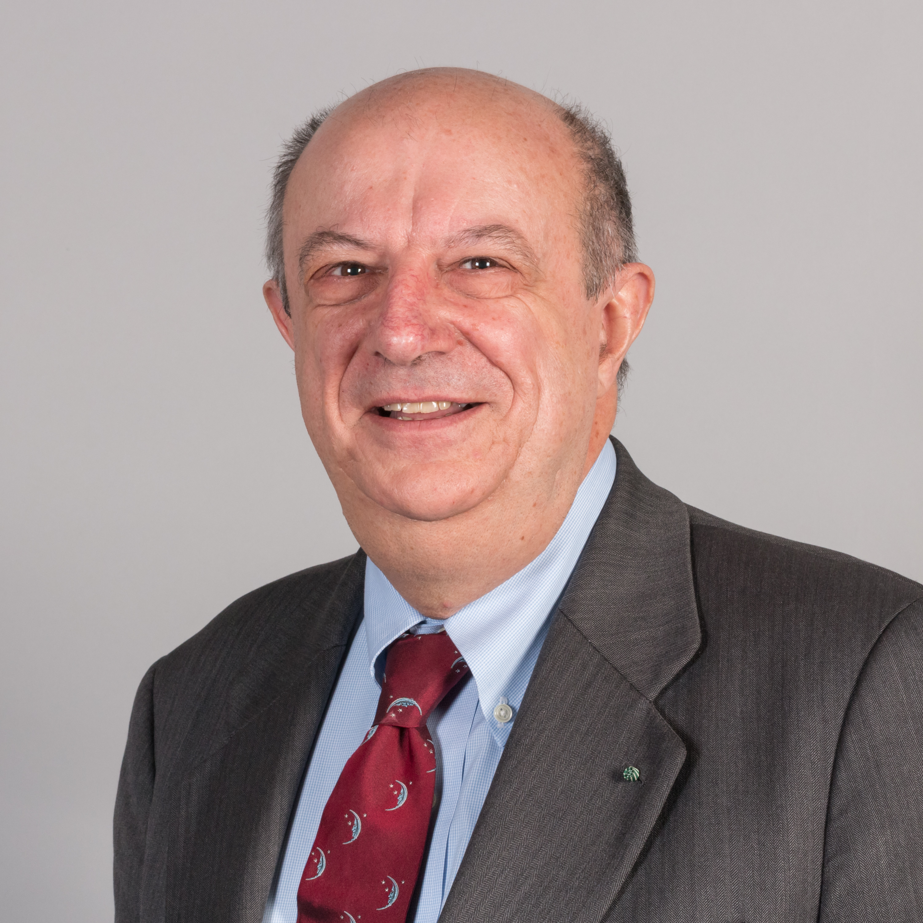 Santiago Fisas Ayxelá, Partido Popular, Spanish Member of the European Parliament